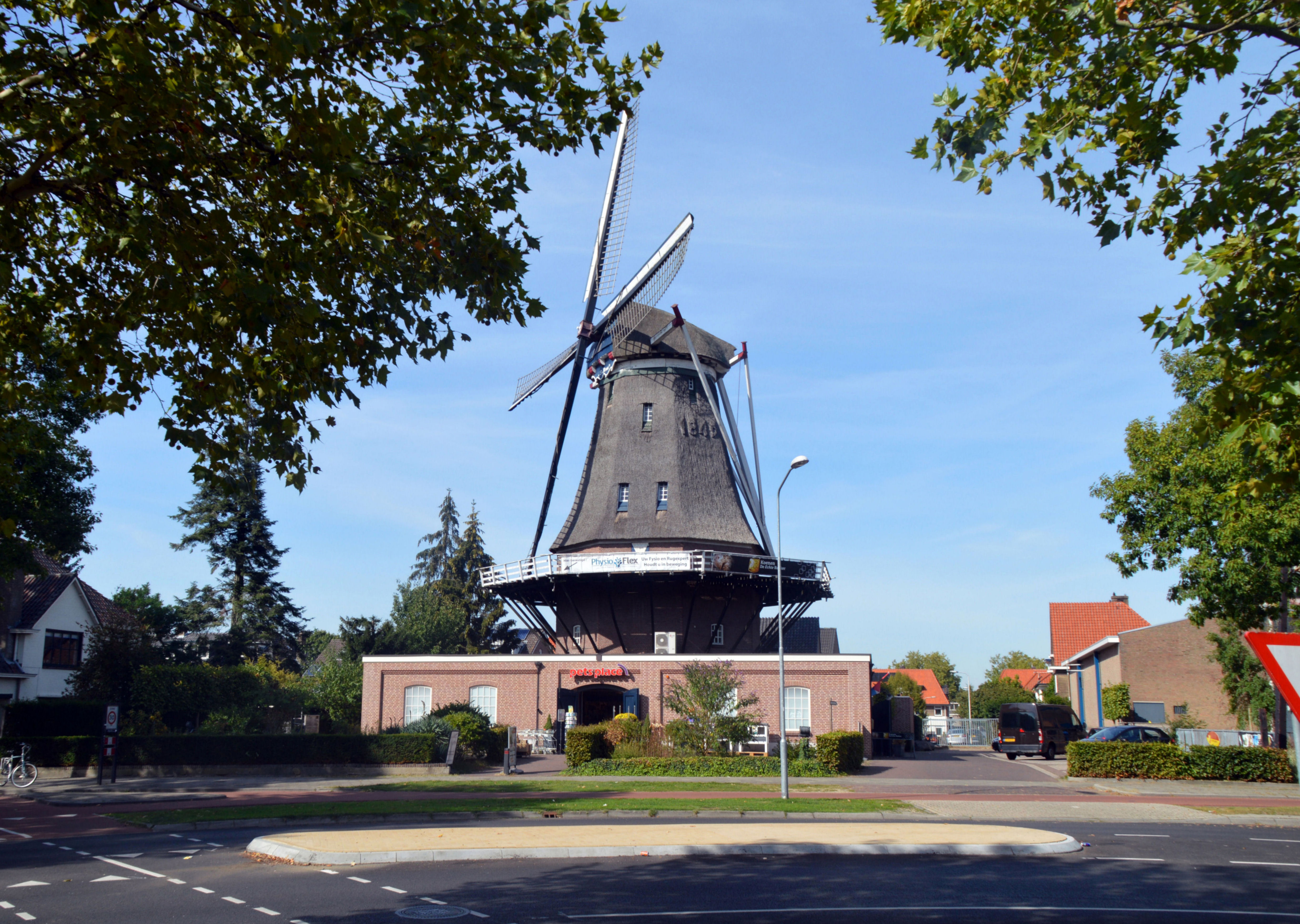 Sint Annamill, Hazenkamp, Nijmegen